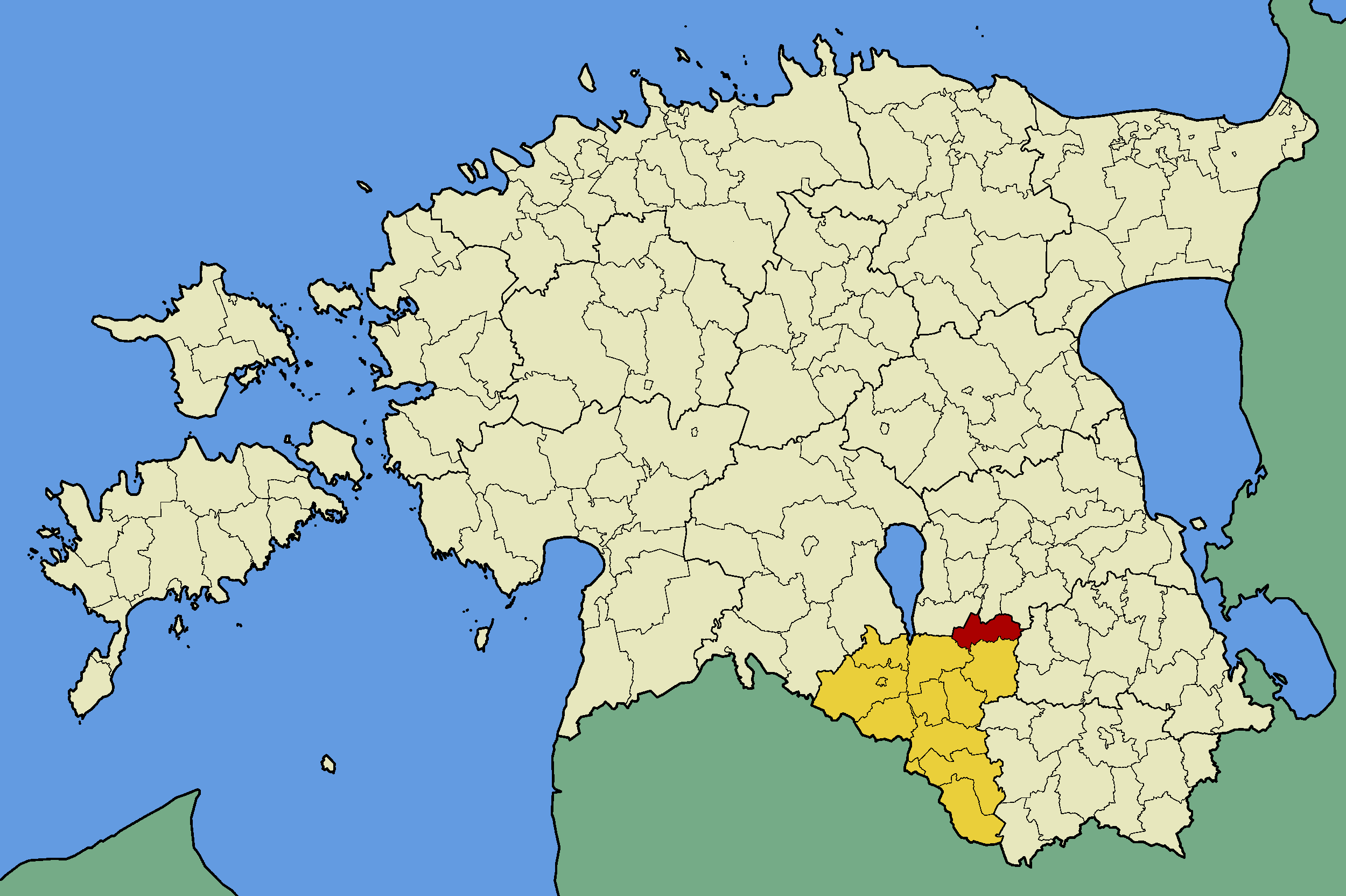 Map of Estonia with borders of municipalities (parishes). Valga county and Palupera municipality emphasized.